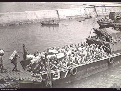 JAPANESE POWS BOARDING A BARGE WHICH IS TO TAKE THEM OUT TO THE RAN VESSEL WHICH IS TO EVACUATE THEM TO BOUGAINVILLE SOON AFTER THE ISLAND WAS OCCUPIED BY TROOPS OF THE 31/51ST INFANTRY BATTALION.